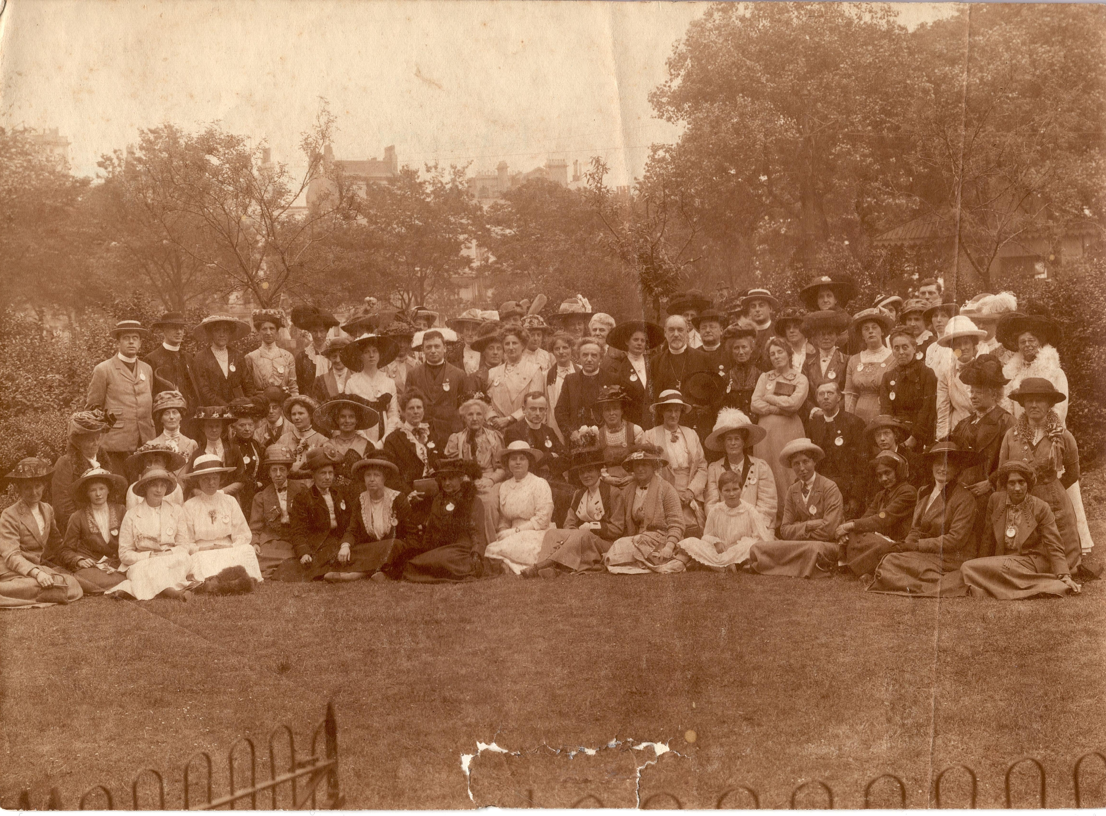 Church League for Women's Suffrage meeting in Brighton 2 July 1913 by Muriel Darton. Florence Canning and Susila Anita (Susie) Bonnerjee are in the pic ref Canning is hatless in the centre of a group of clergy.